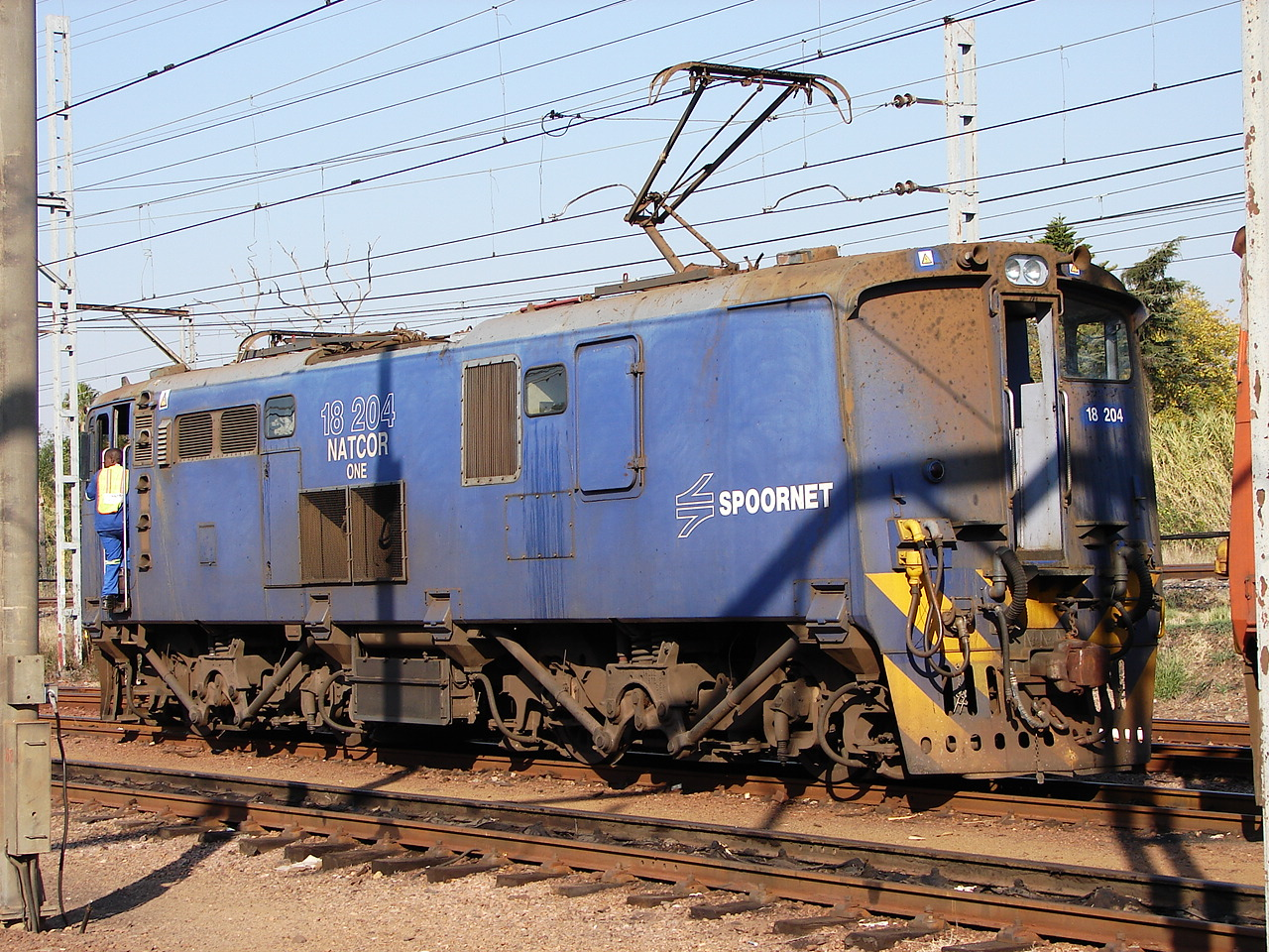 Spoornet Class 18E Series 1 18-204Location: Capital Park, Pretoria, GautengHistory: Rebuilt in 2005 from Class 6E1 Series 8 E1972